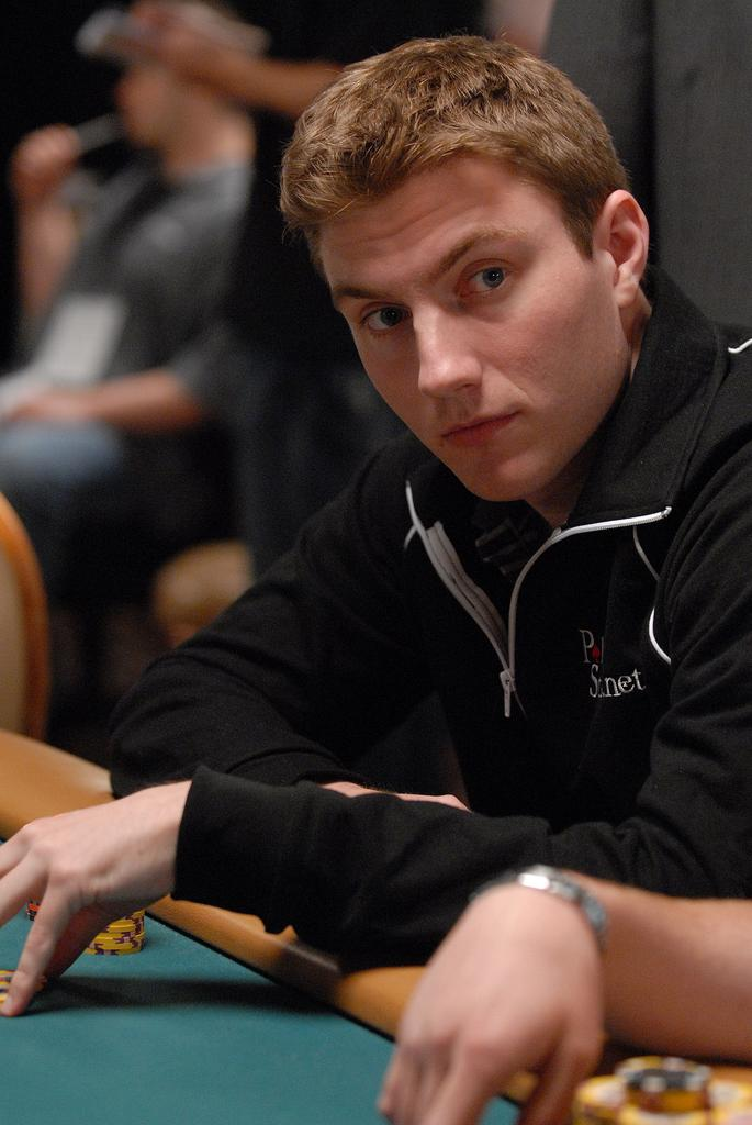 Michael Graves playing in the 2007 World Series of Poker.